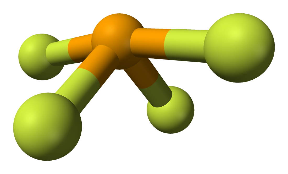 Ball-and-stick model of the selenium tetrafluoride (SeF4) molecule in the gas phase. Dimensions, taken from Greenwood and Earnshaw, were determined by microwave spectroscopy.